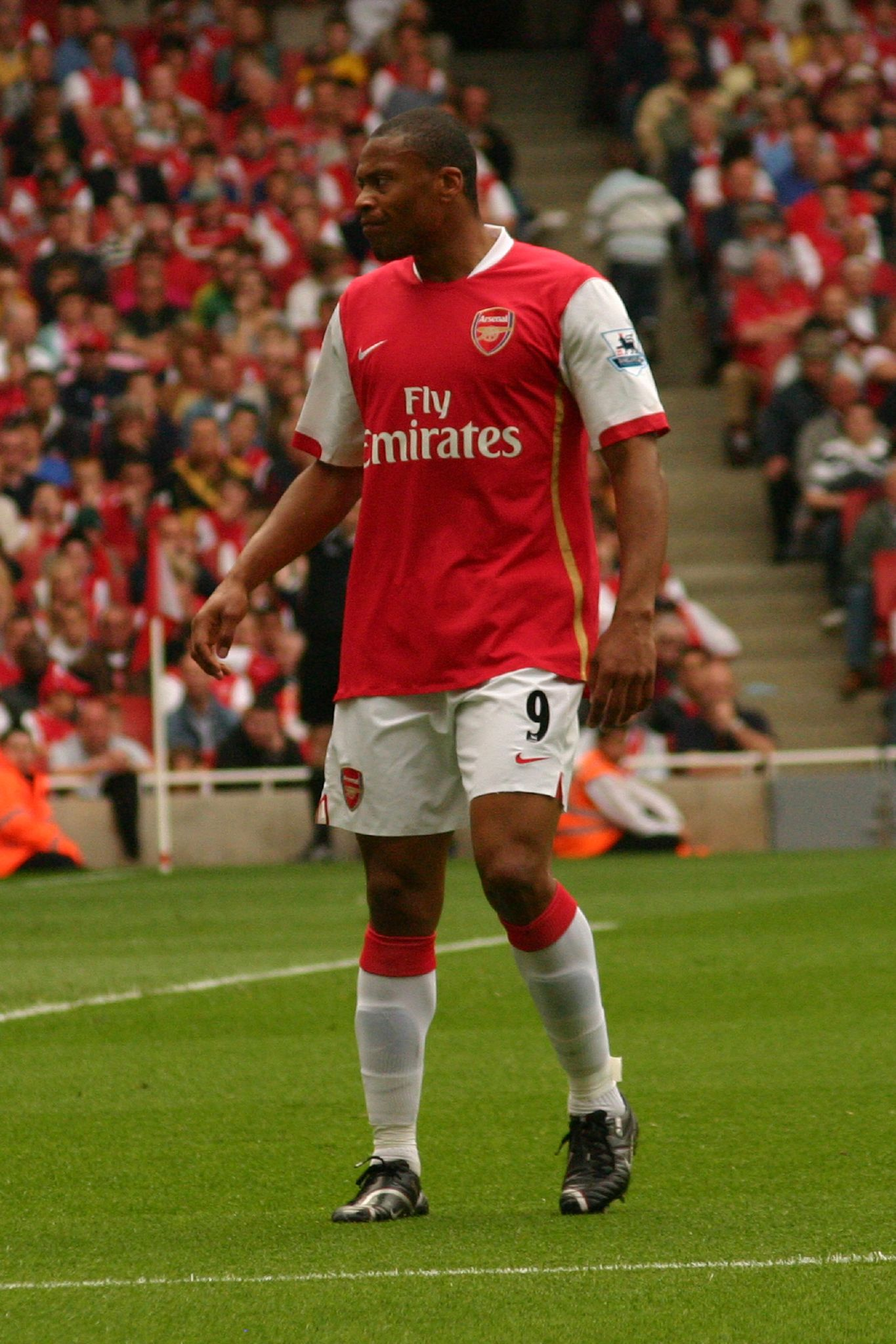 Júlio César Baptista with Arsenal.